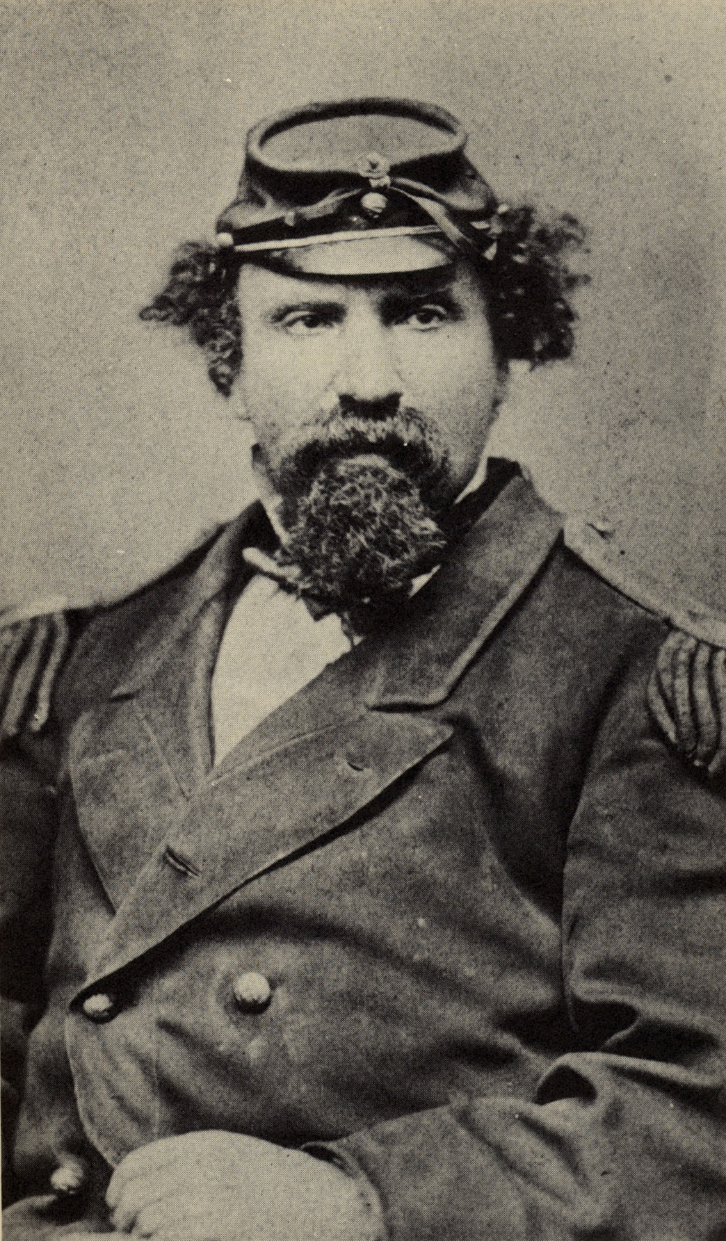 Image of His Imperial Majesty Emperor Norton I, also known as Joshua A Norton.